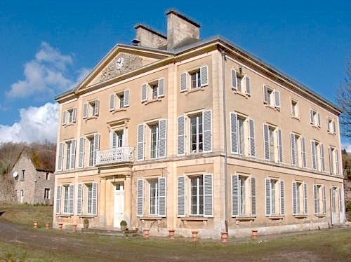 Photo du château de la Pommeraye